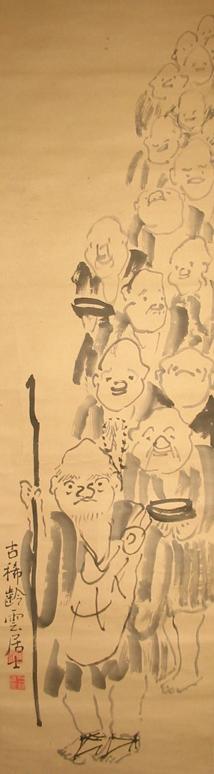 Unkyo Miura's self-portrait at the age 70, 1900